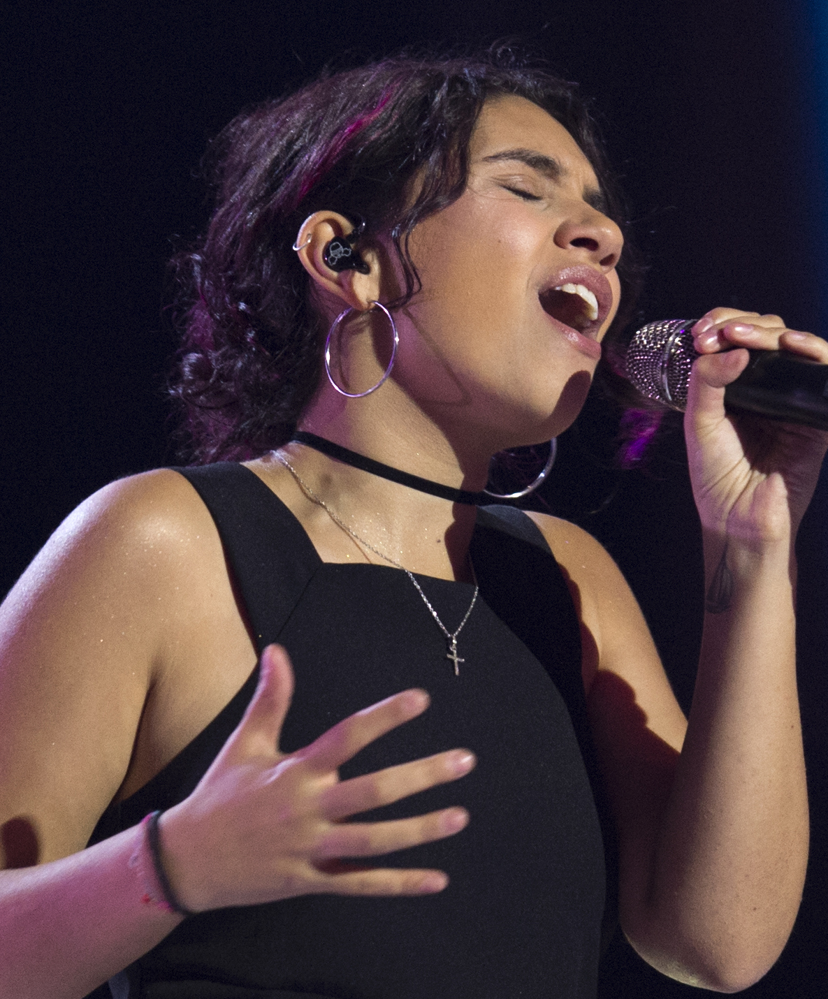 Recording artist Alessia Cara performs for the 2017 Invictus Games opening ceremonies in Toronto, Canada Sept. 23, 2017. (DoD photo by EJ Hersom)..